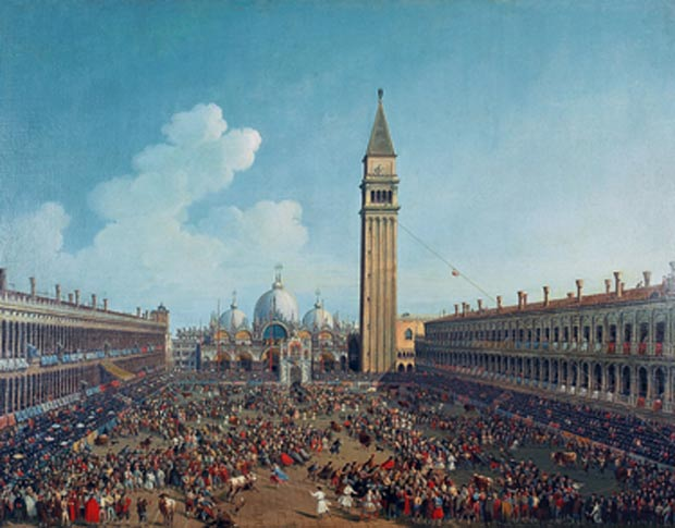 Venice, 1740.